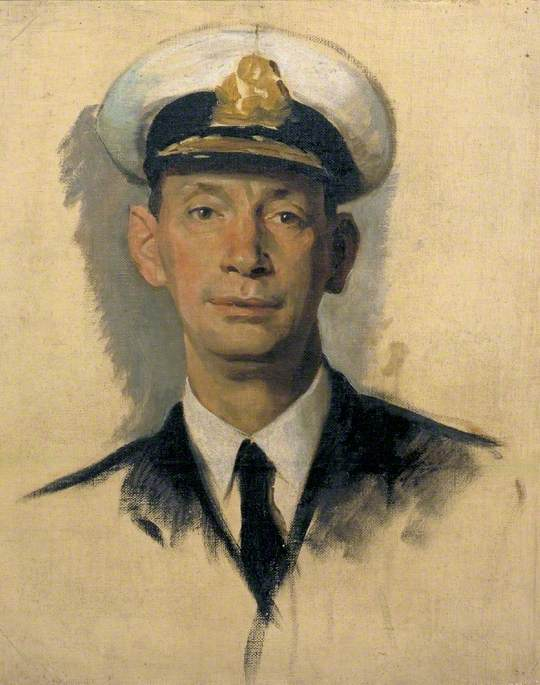 "Sketch of 'Vice Admiral Sir Roger Keyes (1872–1945), KCB, CMG, CVO, DSO'," by the British painter Glyn Warren Philpot. Courtesy of the collection of the Imperial War Museums.